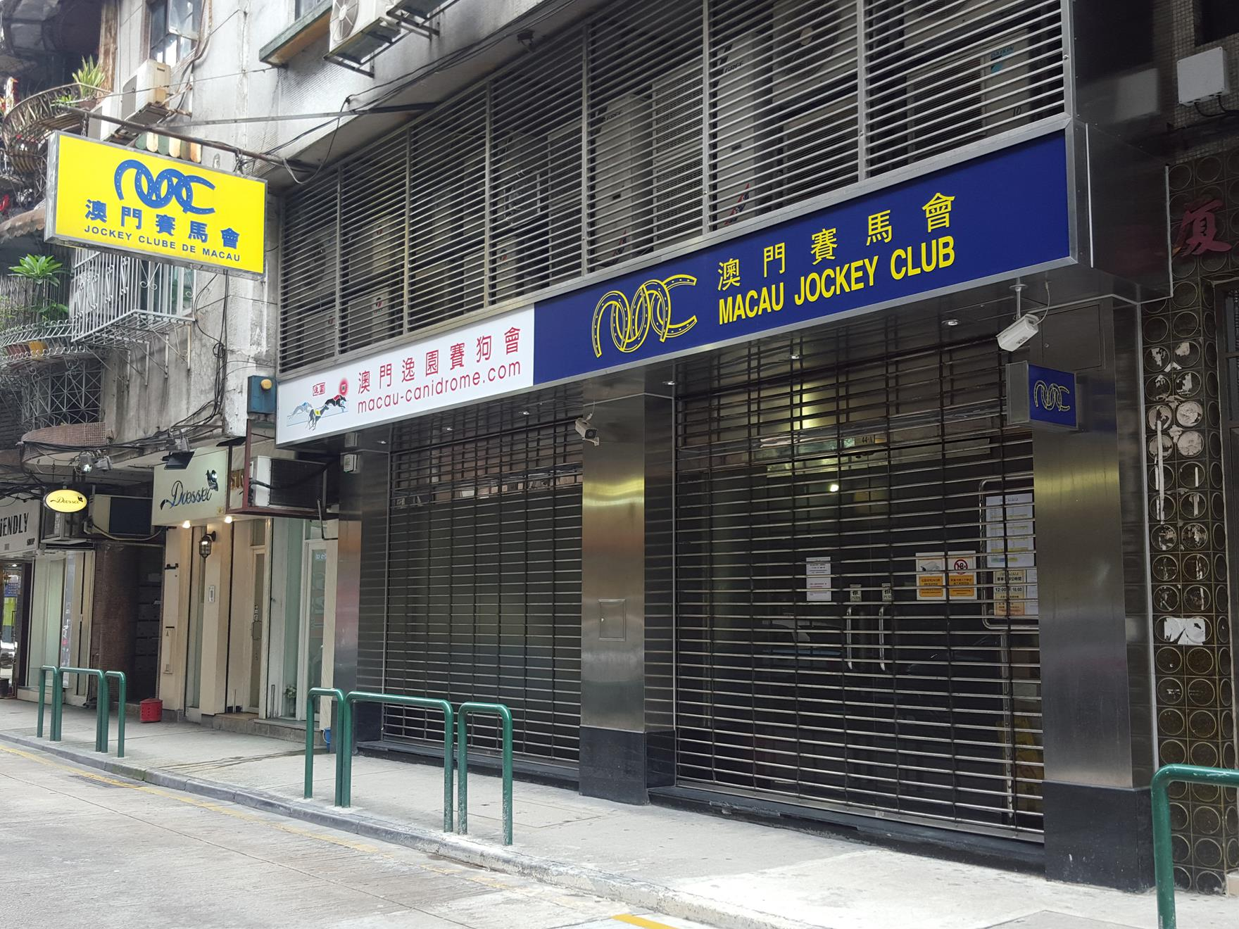 MJC Betting Centre at San Kio